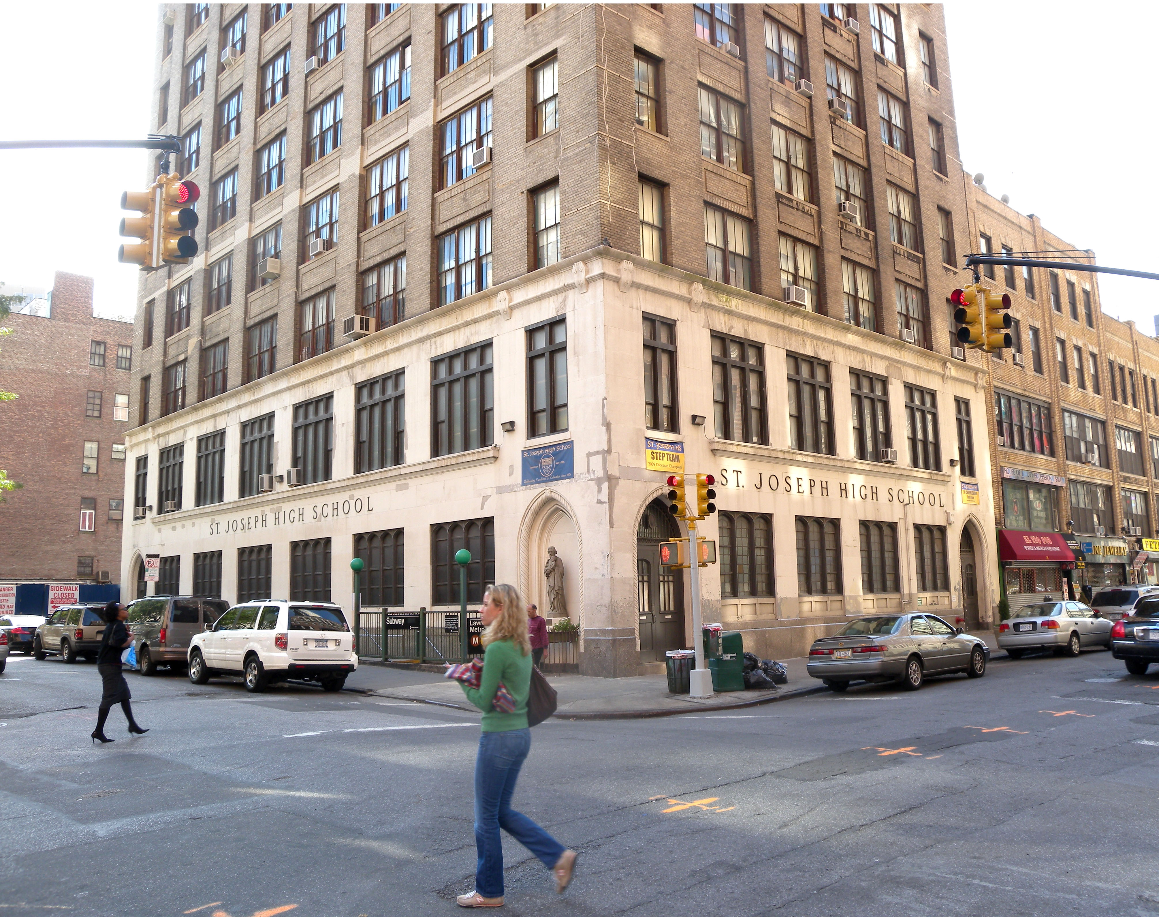 Looking southwest across Lawrence and Willoughby Streets at St. Joseph High School (Brooklyn) on a sunny afternoon.